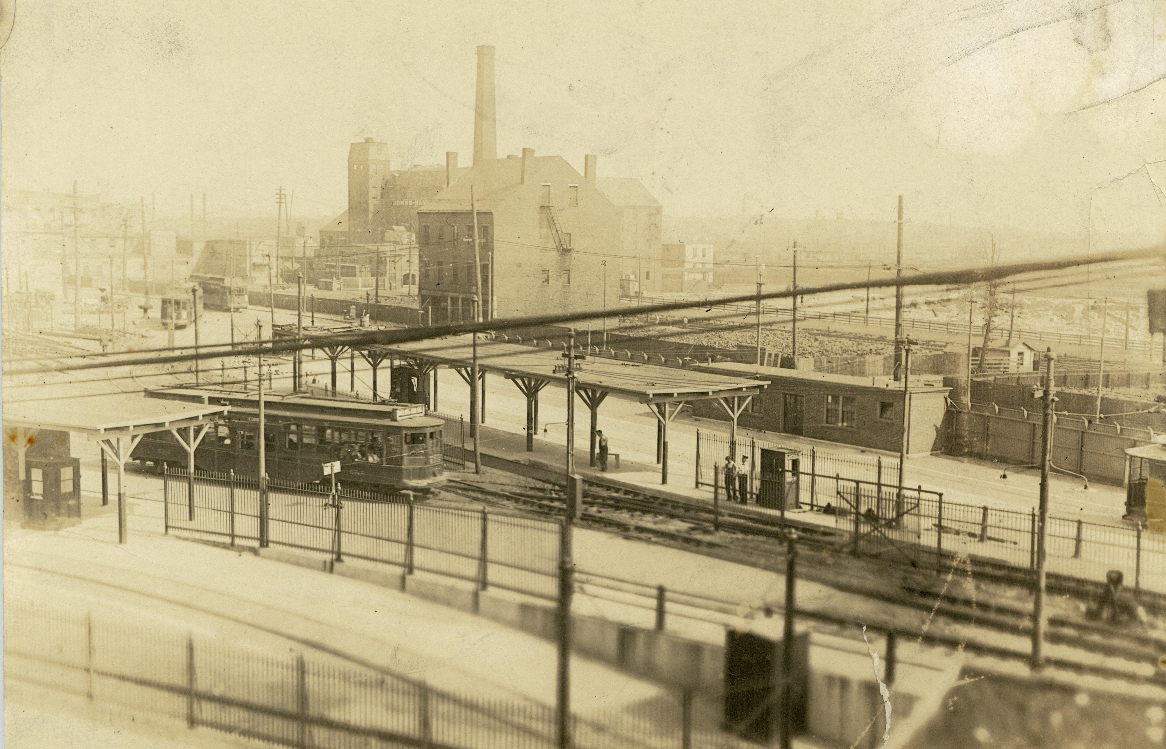 An inbound center-entrance streetcar at Lechmere station on June 7, 1922, a month before the station opened